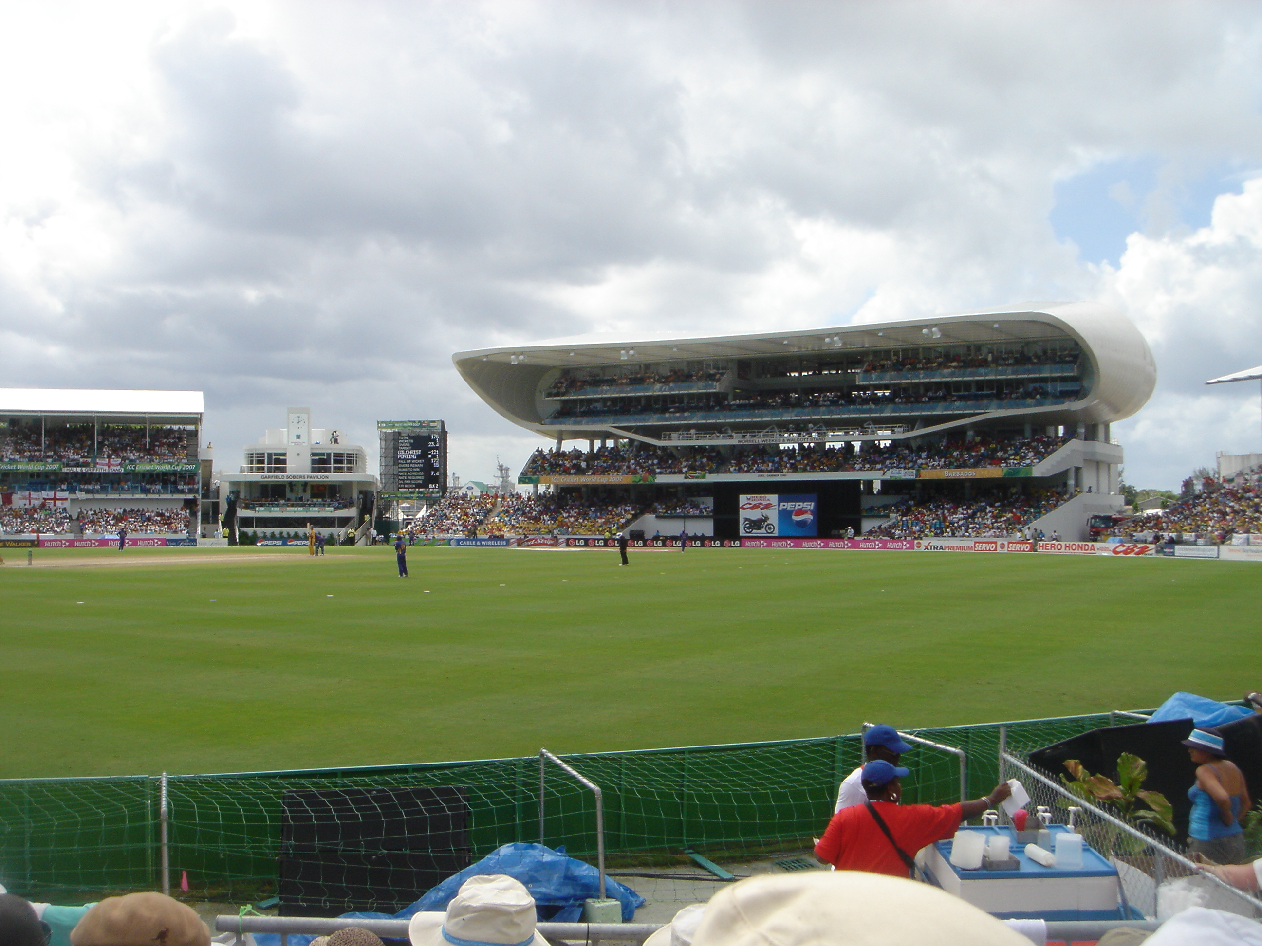 This is an image of the Kensington Oval, Bardados taken during on the day of the 2007 World Cup Cricket Final. Featured on the right is the Worrell, Weekes and Walcott stand, a most dramatic and impressive structure. I am the photographer.